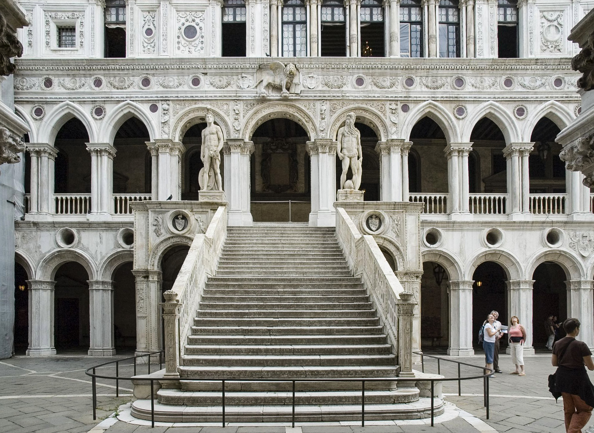 see abovesee above